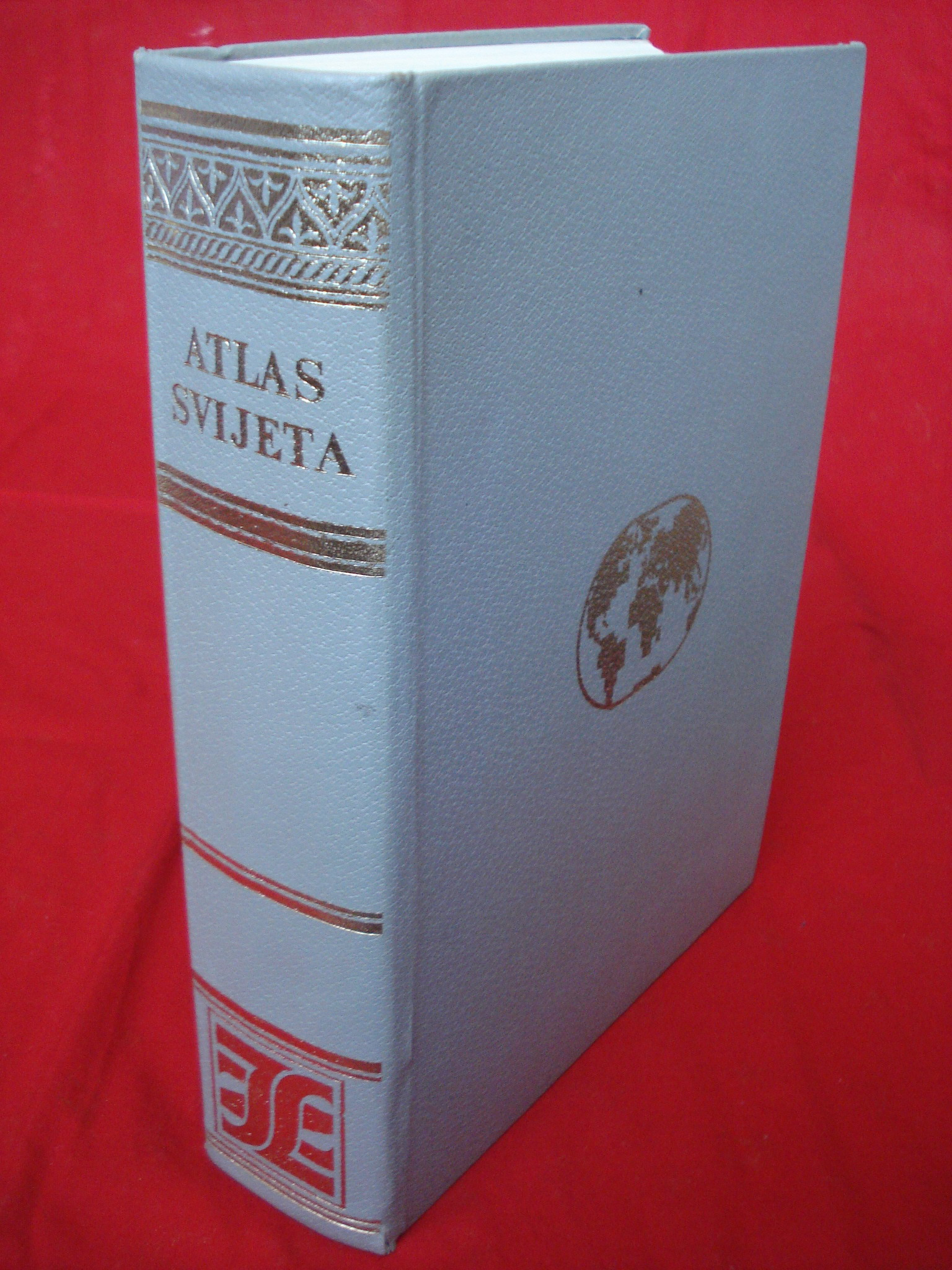 World Atlas; Publisher: "Miroslav Krleža Institute of Lexicography", Zagreb, CroatiaHrvatski: Atlas svijeta; Nakladnik: Leksikografski zavod "Miroslalav Krleža", Zagreb, Hrvatska